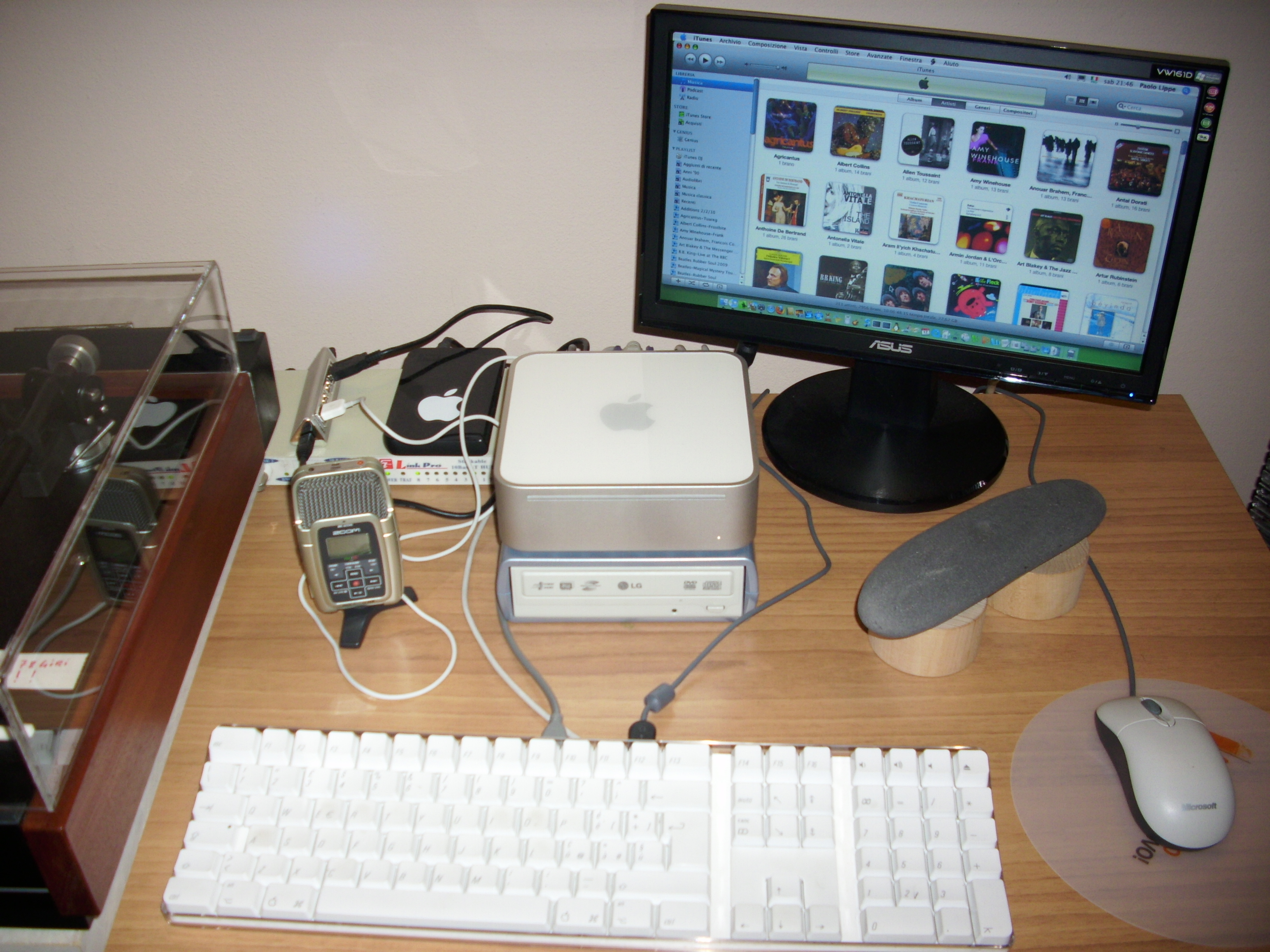 A modern Music Server made with Apple iTunes/Mac-Mini, USB cable and DAC.